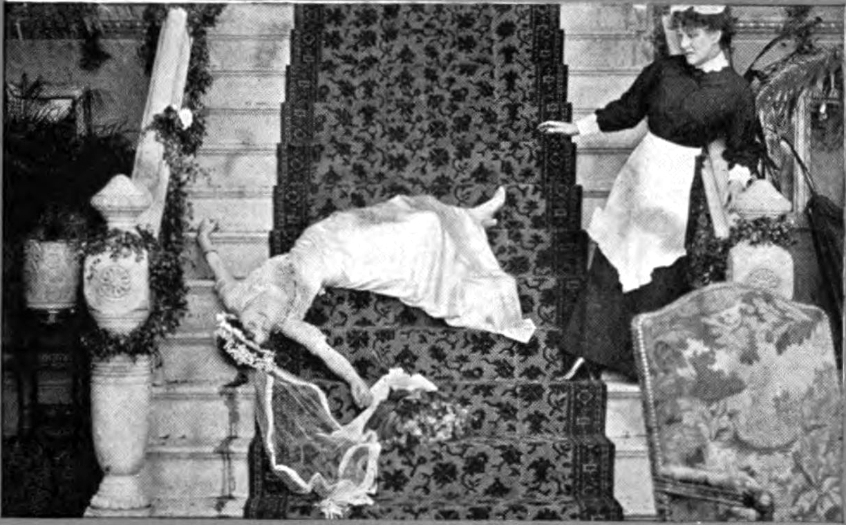 A still from the film On the Broad Stairway (1913), showing Bessie Learn as the bride.